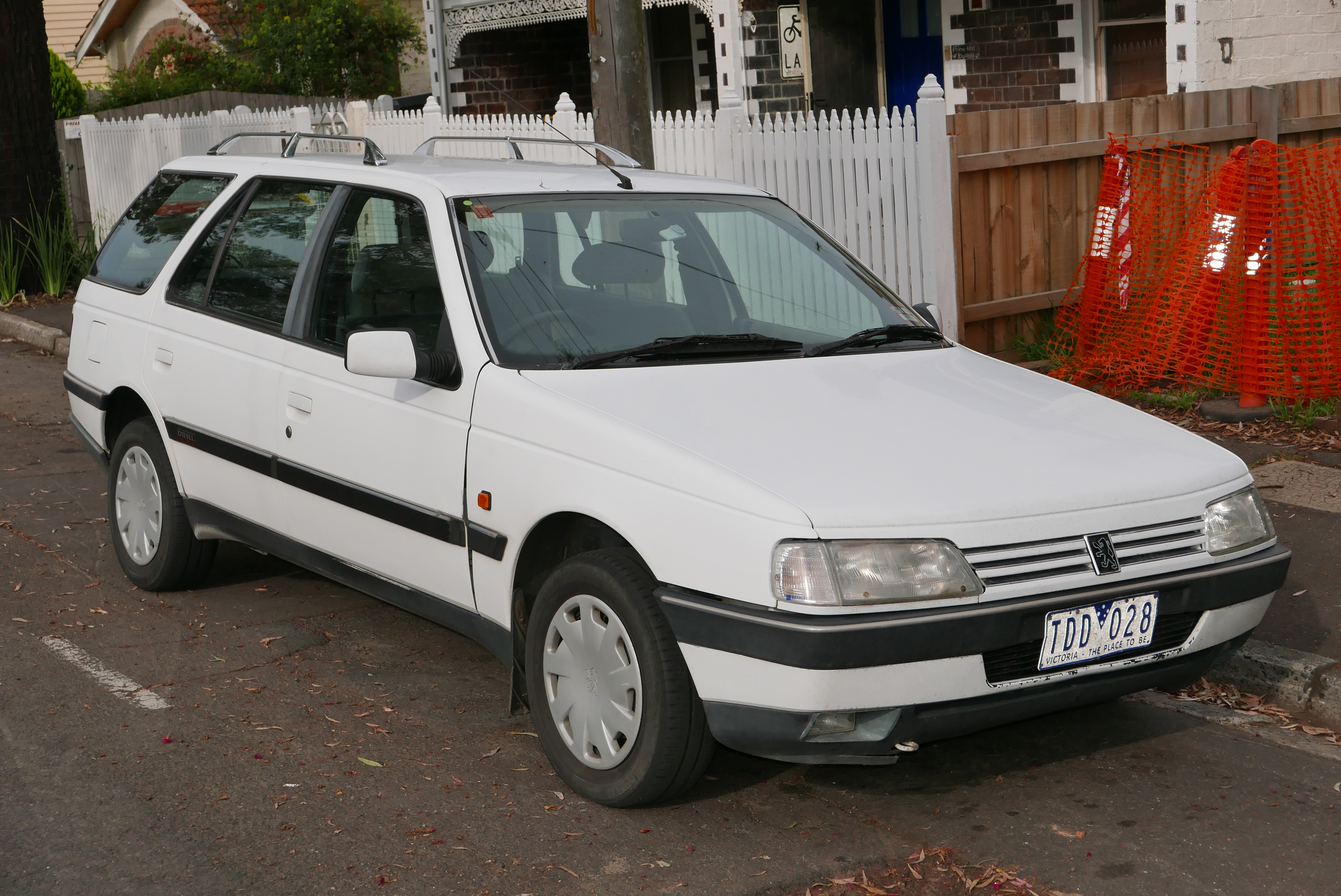 1995 Peugeot 405 (D70) SRDT station wagon. Photographed in Flemington, Victoria, Australia. Vehicle registration enquiry results Jurisdiction Victoria Registration TDD028 Chassis code VF34ED8A271527609 Engine code 10CU934005217 Compliance date 1995-09 Year of manufacture 1995